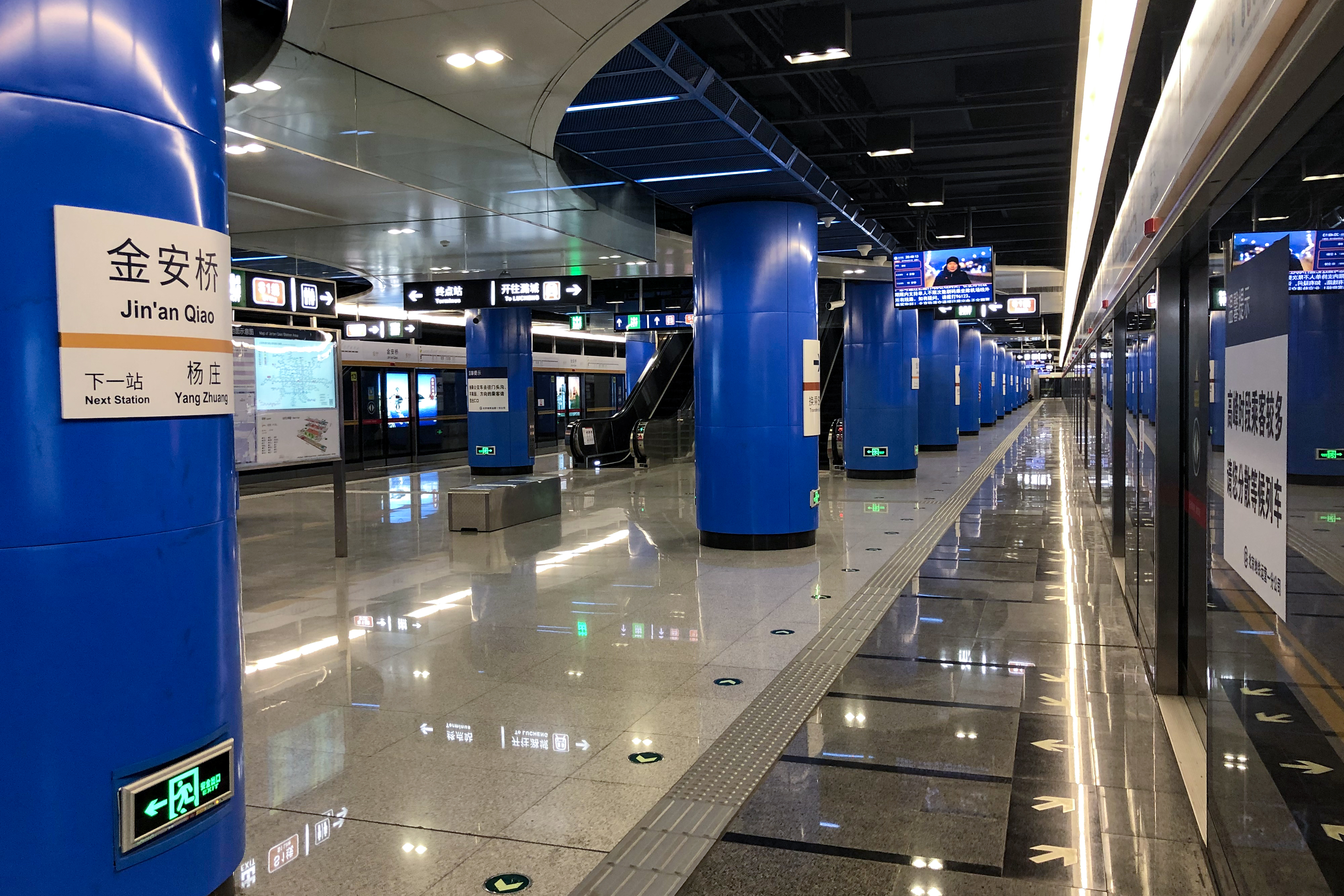 First entry after nearly half a year...